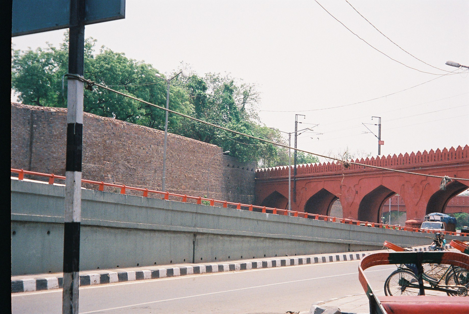 Arch bridge that links Salimgarh Fort with Red Fort